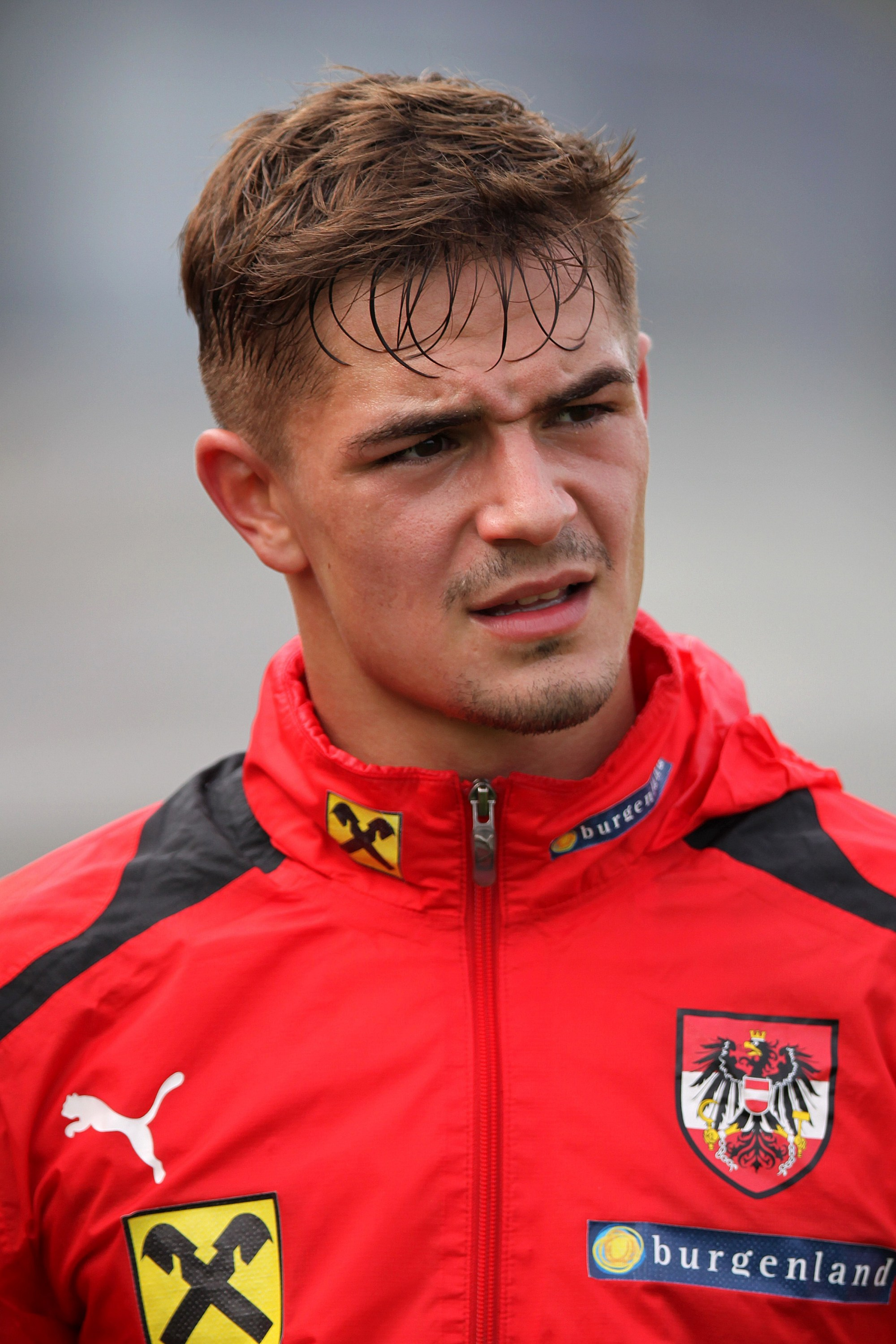 Teamcamp of the Austria national under-21 football team on 5.–9. October 2015 in Bad Erlach – The photo shows Nikola Dovedan (LASK Linz).